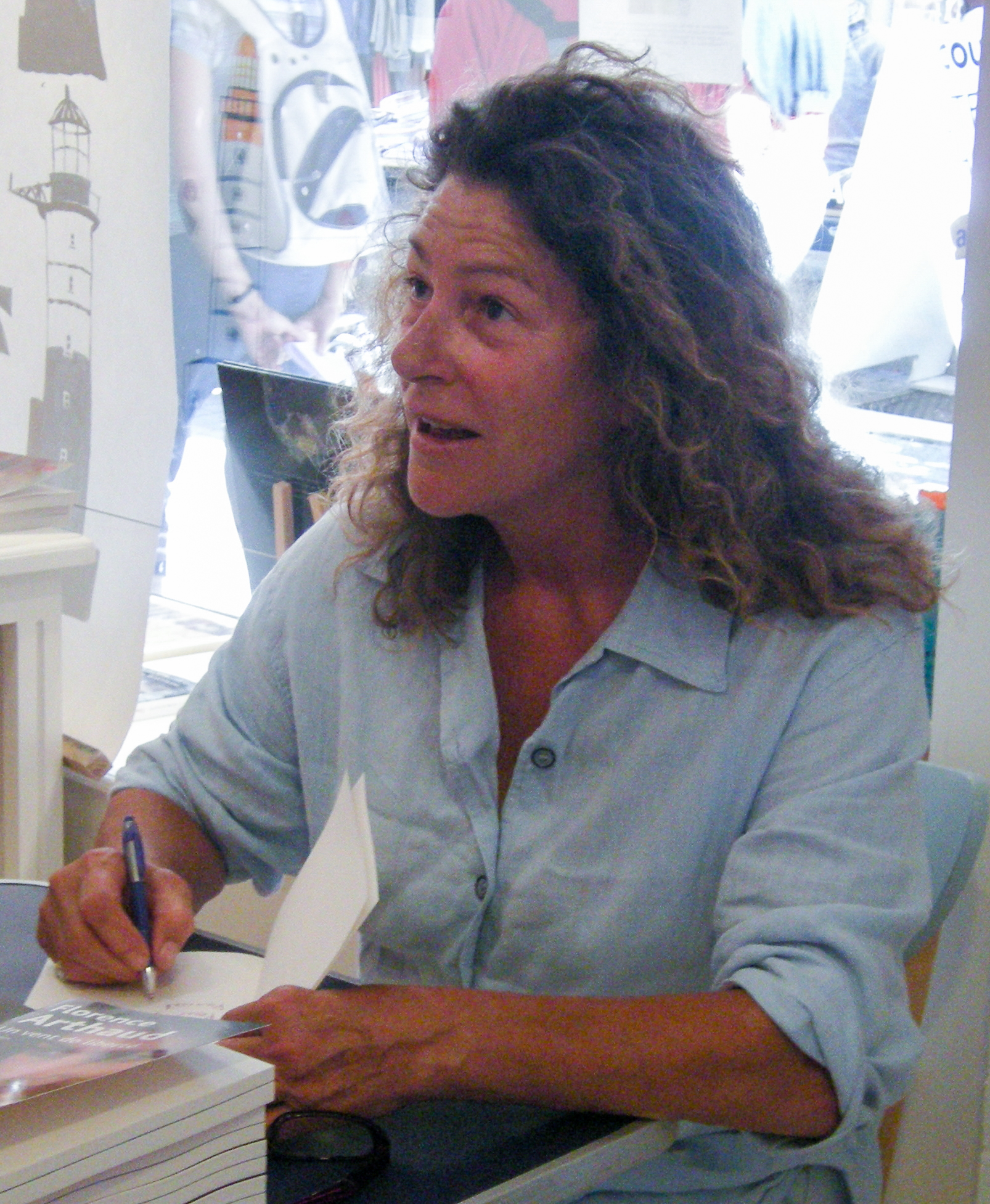 Florence arthaud, french sailor, signing her last book Un vent de liberté. 2009/08/11, Librairie du Renard, Paimpol, France.